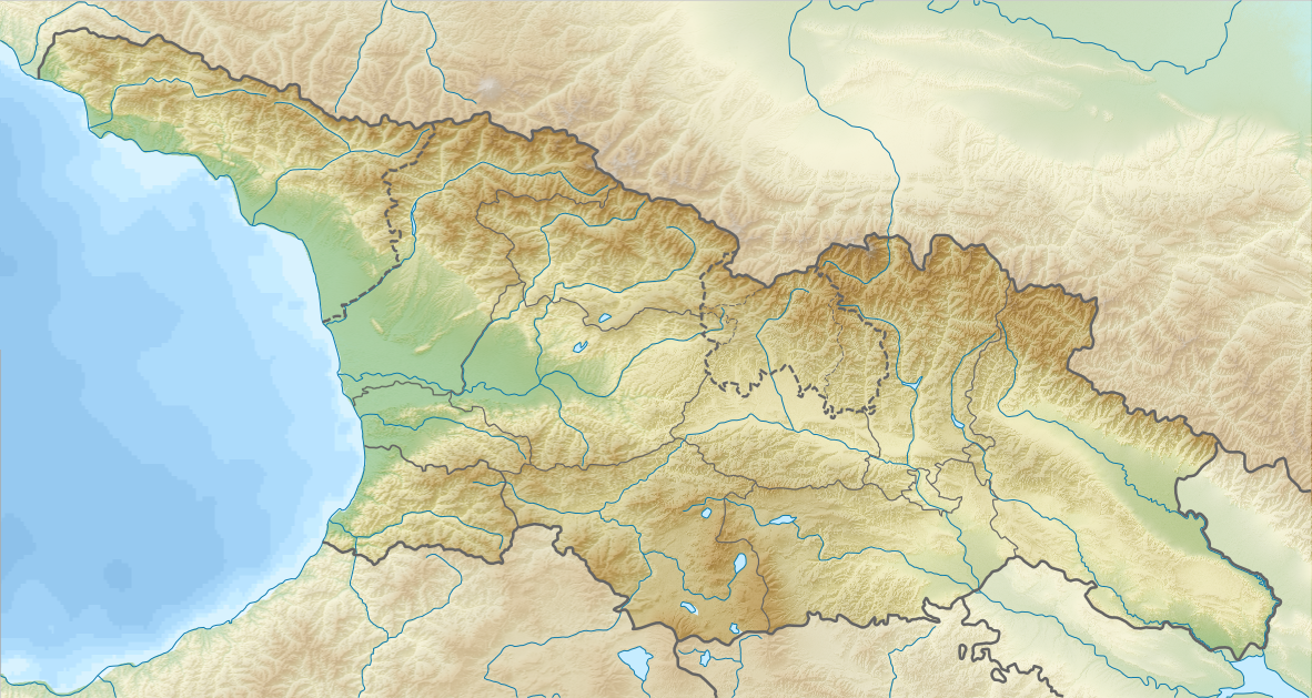 Relief map of Georgia Equirectangular projection, N/S stretching 135 %. Geographic limits of the map: N: 43.7° N S: 40.9° N W: 39.8° E E: 46.9° E